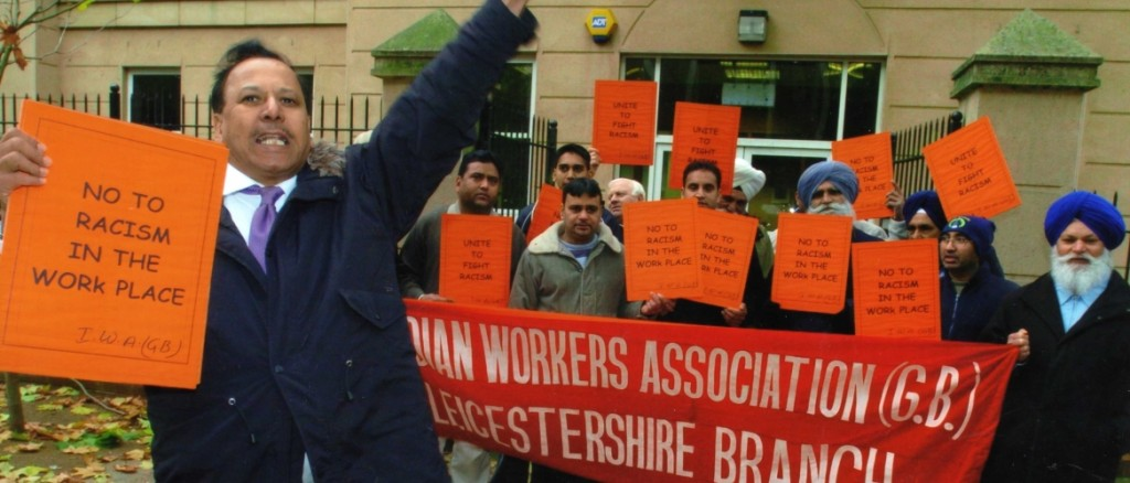 IWA(G.B) Leicestershire protests Racism in the Workplace